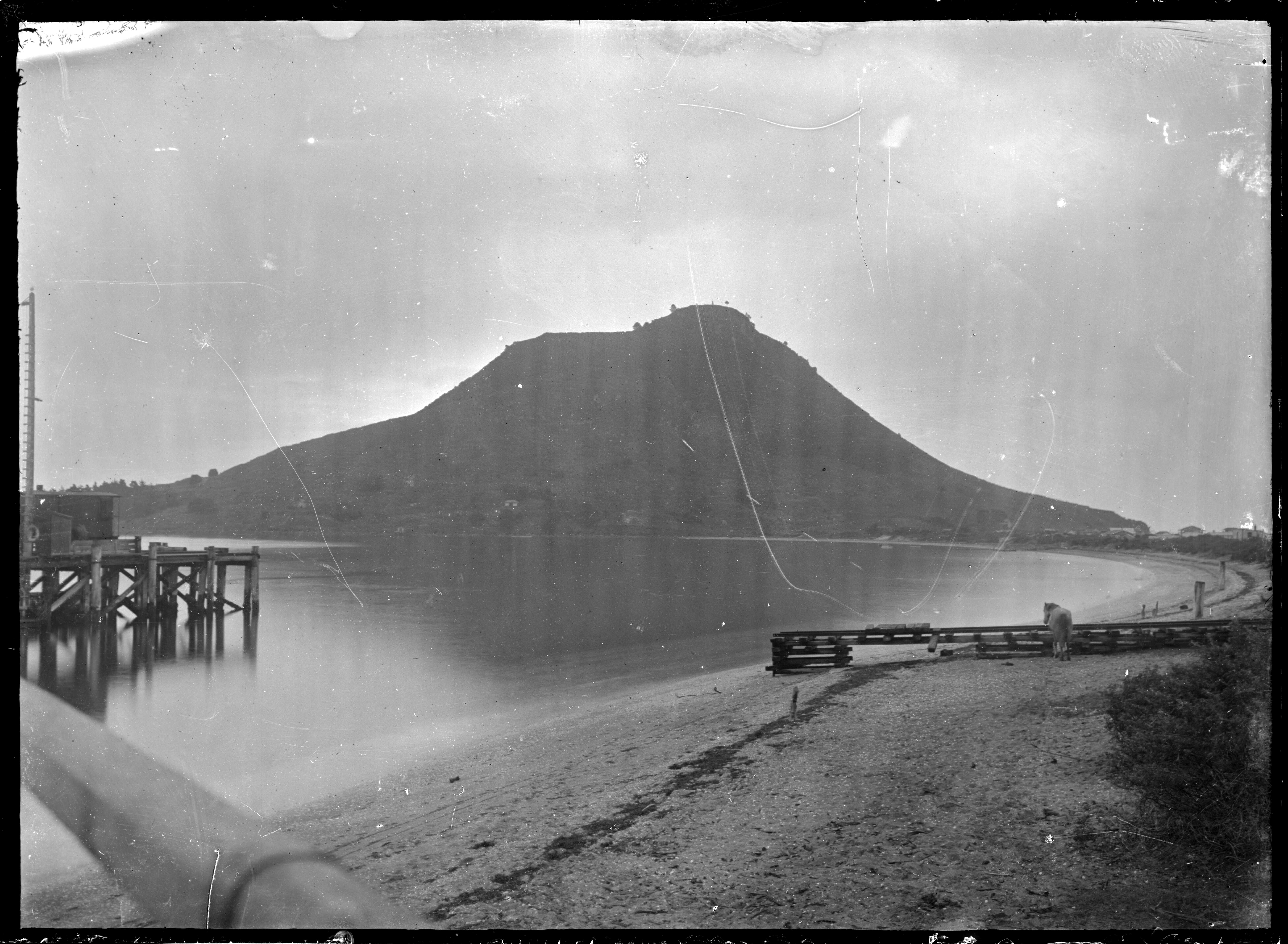 View of Mount Maunganui, with a wharf on the left, and a curving bay on the right. A horse is tied to a railing centre right. Photograph taken by Albert Percy Godber, in 1924.